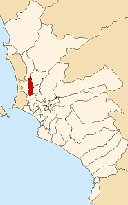 Map of Lima highlighting the Los Olivos district in Lima.